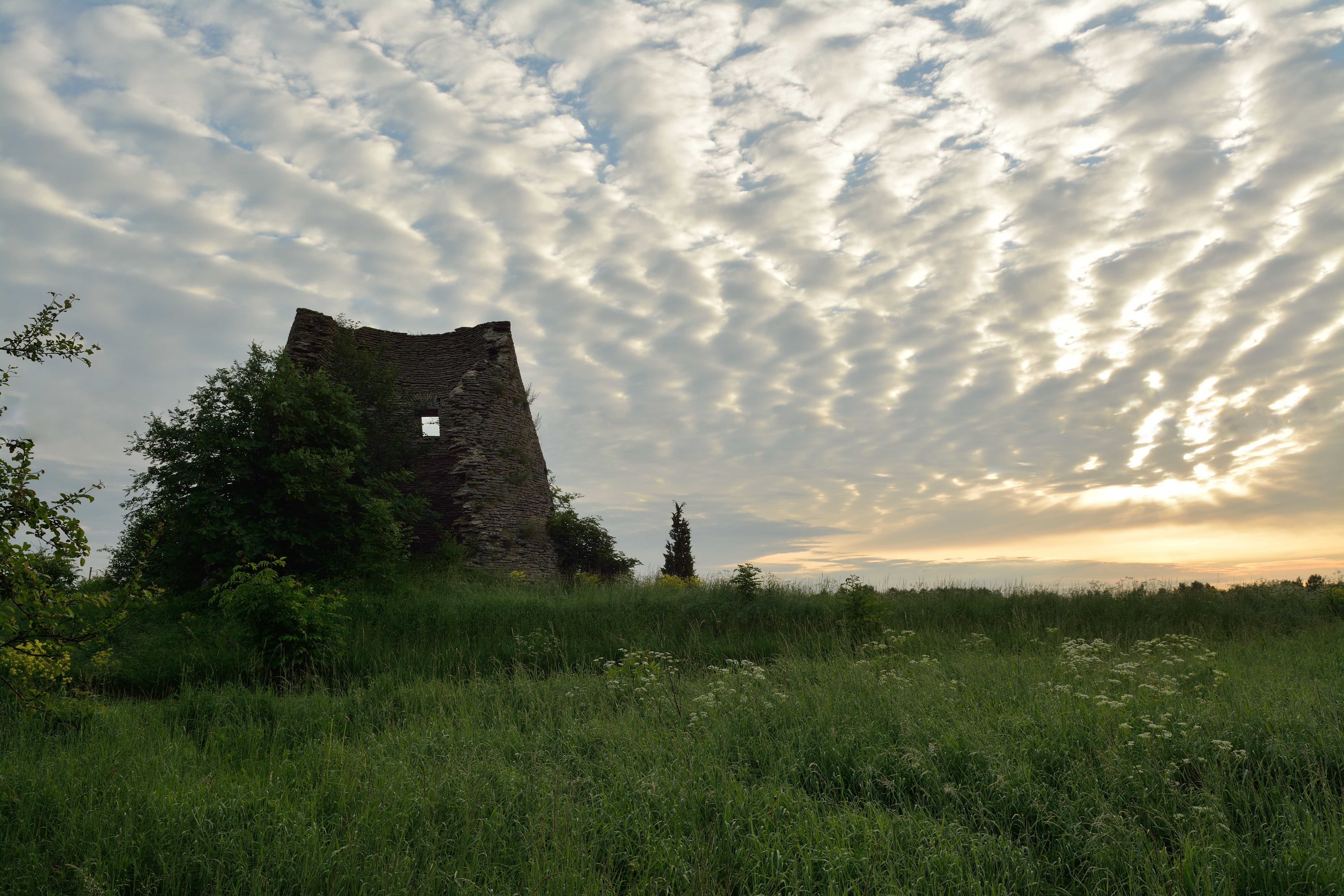 Ruins of Käesalu manor windmill